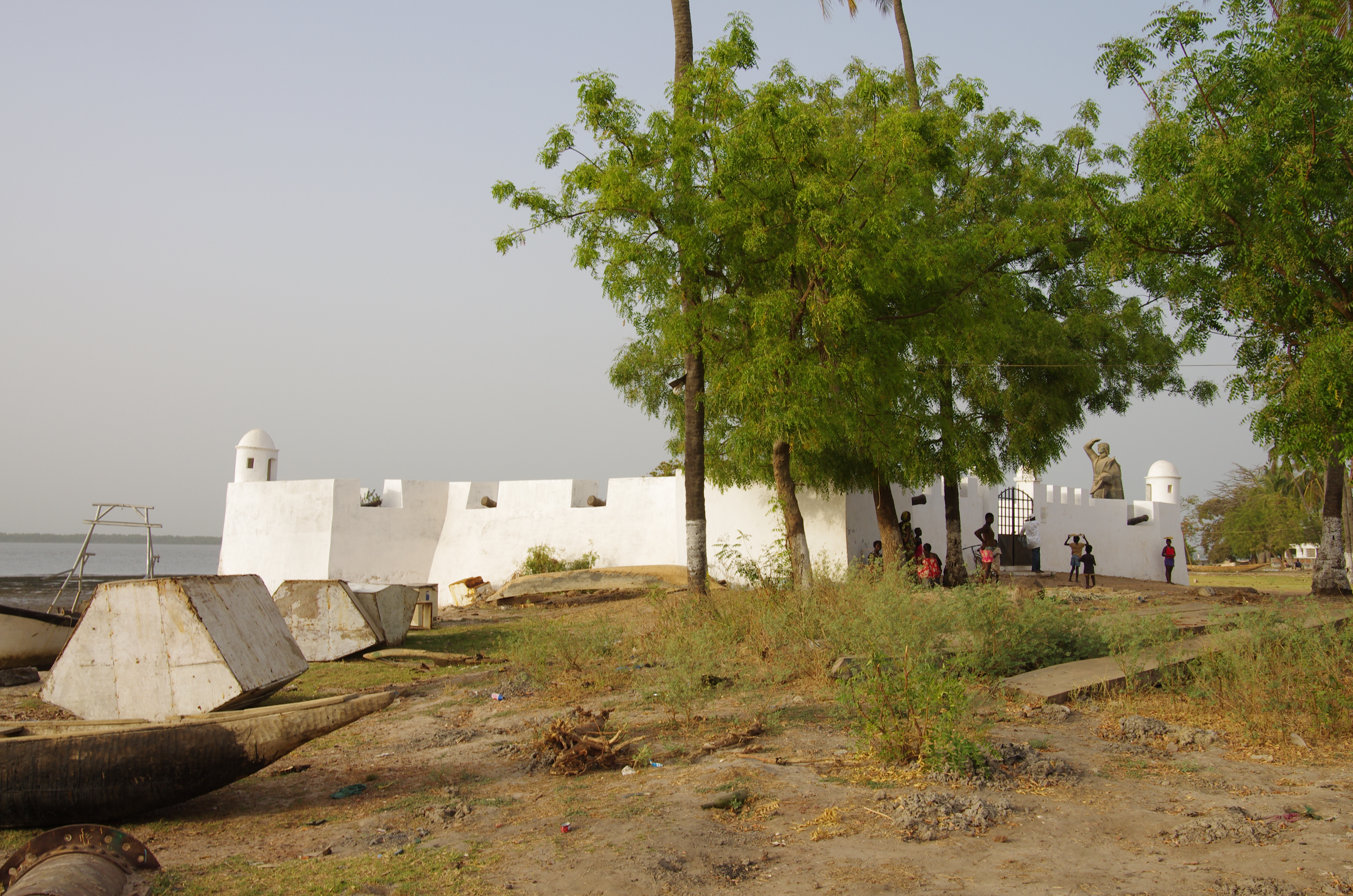 Fortress of Cacheu